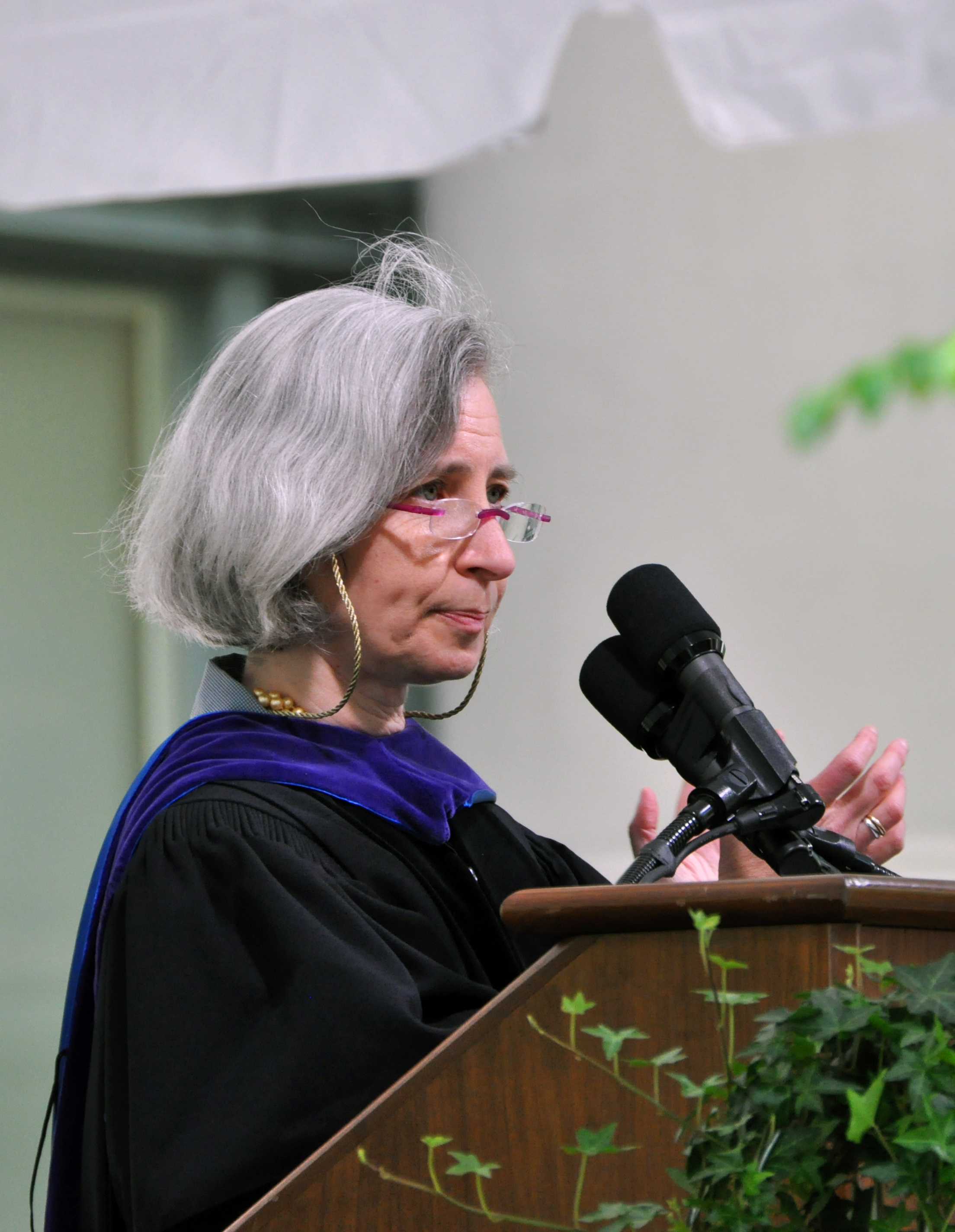 Dean Professor Martha Minow, Harvard Law Commencement 2010